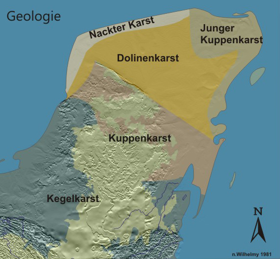 Peninsula Yucatan, Mexico: geology